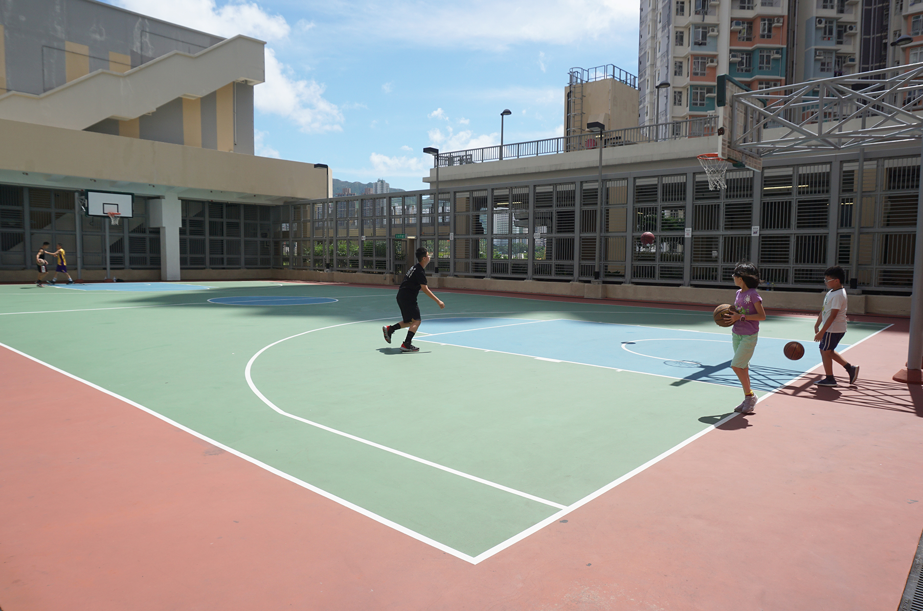 Yan Tin Estate in Siu Hong, Hong Kong.